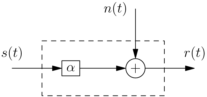 Model of additive noise channel